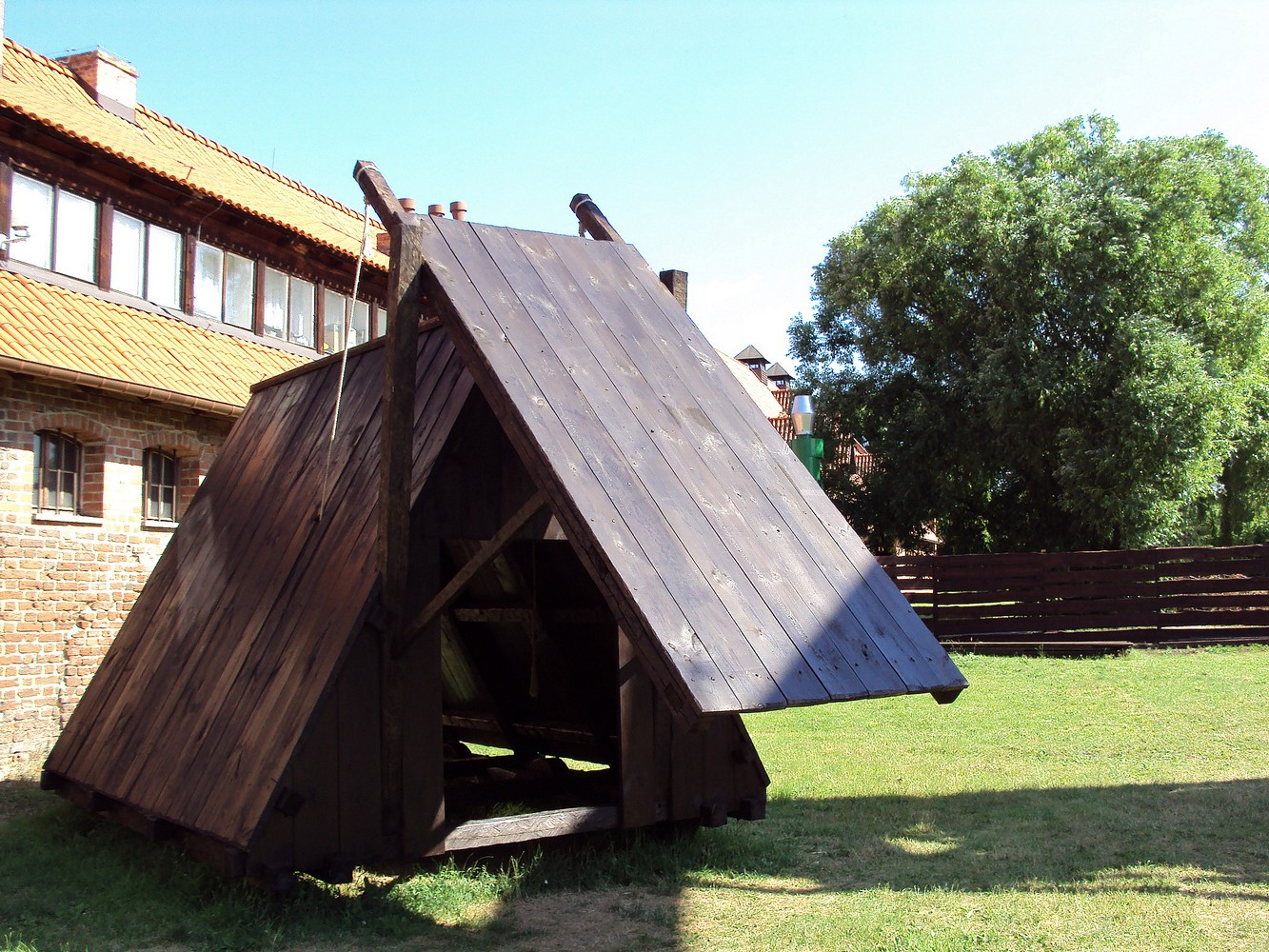 The reconstruction of the exhibition in Malbork (Poland) siege engines.